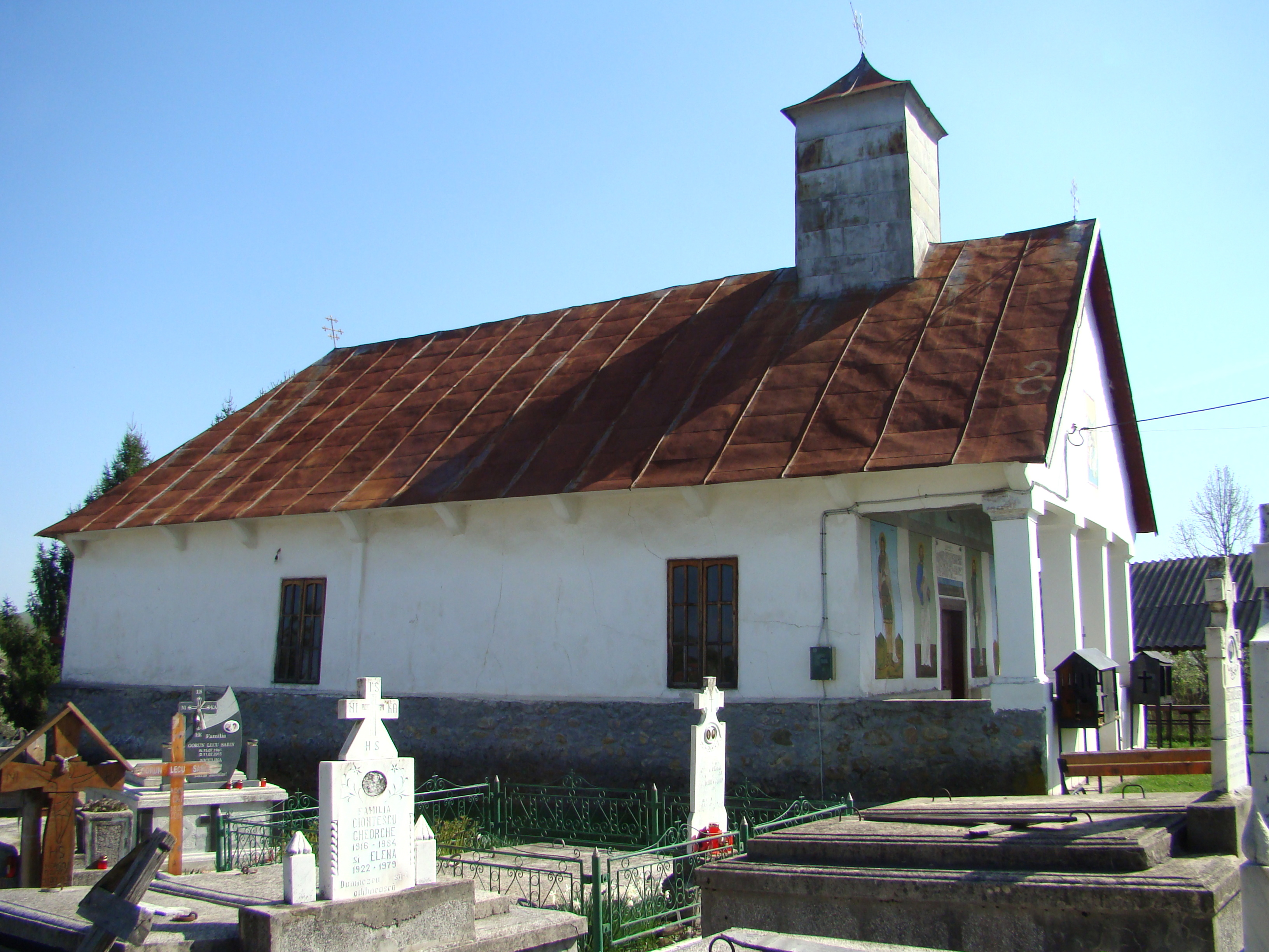 Wooden church in Cărbunești-Sat, Gorj county, Romania